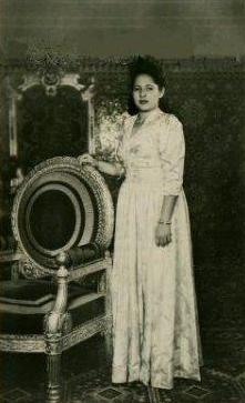 Lalla Malika, princess of Moroccco.